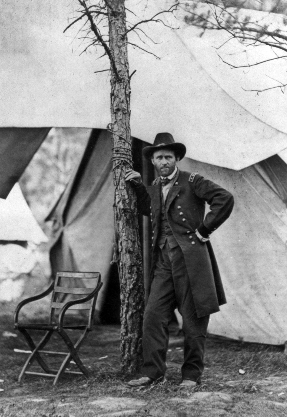 Gen. Ulysses S. Grant at Cold Harbor, Va. 1864. Fawx, Edgar Guy. Mathew Brady Collection.